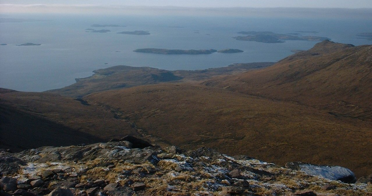 The Summer Isles and Loch Broom taken from Ben Mor Coigach by J. Miall, Jan 2006. The closest, wide island is Horse Island.